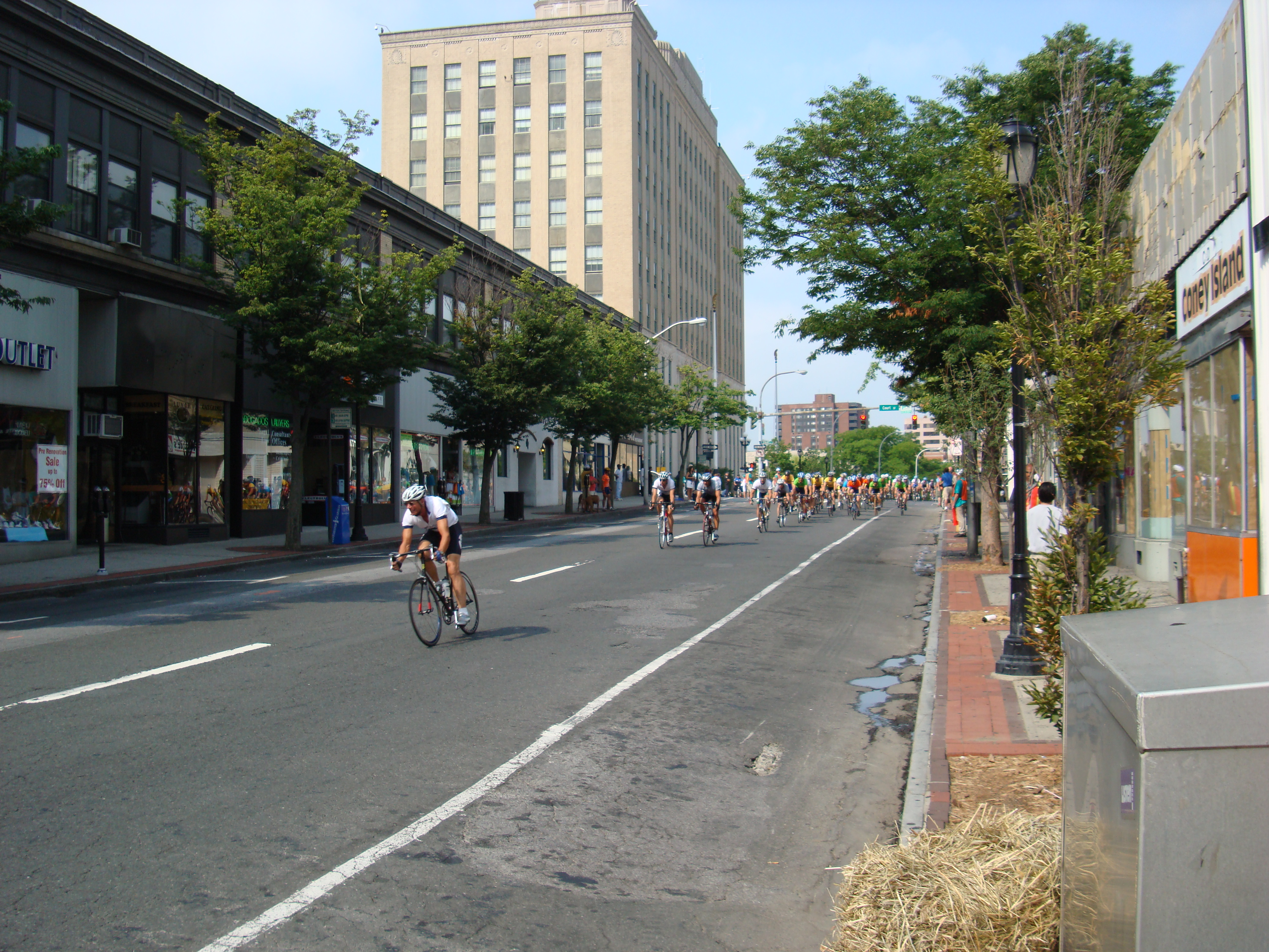 Men's Open Cycling event at the Empire State Games in White Plains, New York